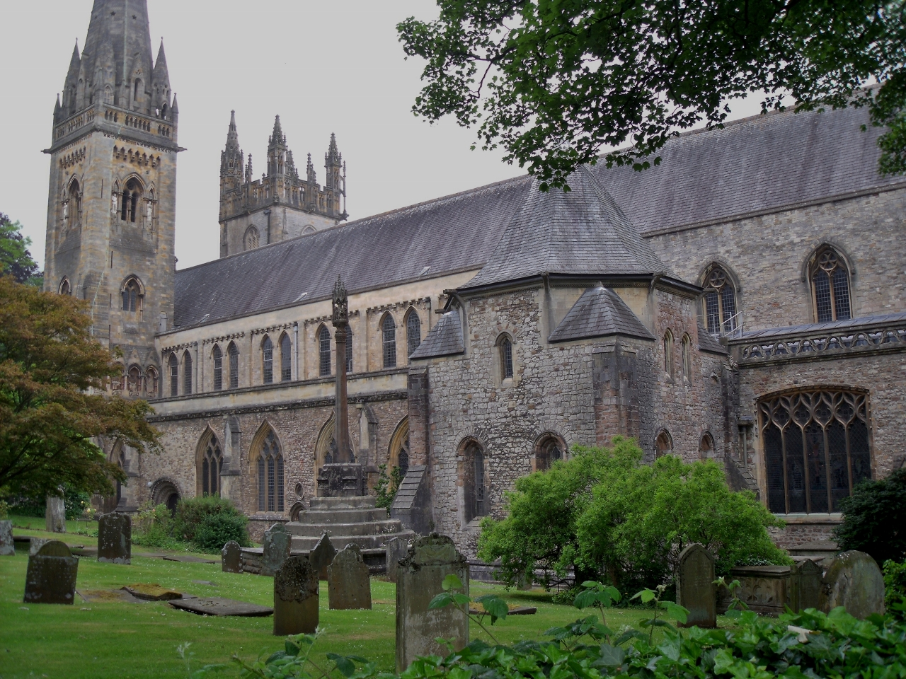 LLandaff Cathedral was constructed in the 12th century over the site of an earlier church. It is dedicated to Saint Peter and Saint Paul, and also to three Welsh saints: Dubricius (Welsh: Dyfrig), Teilo and Oudoceus (Welsh: Euddogwy).On the evening of 2 January 1941 during World War II the cathedral was severely damaged when a parachute mine was dropped near it during the Cardiff Blitz, blowing the roof off the nave, south aisle and chapter house. The top of the spire also had to be reconstructed and there was also damage to the organ.